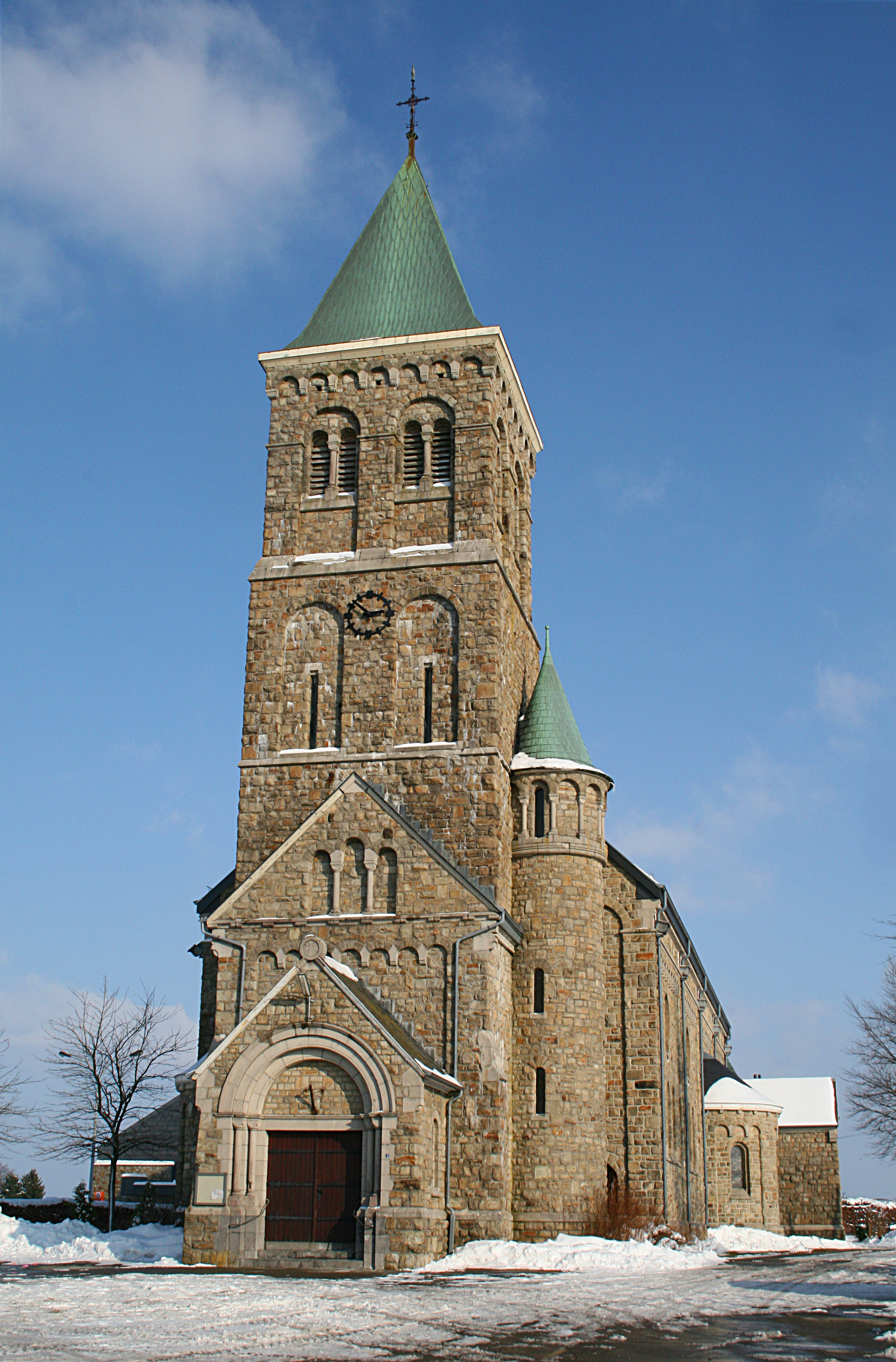 Sourbrodt (Belgium), the Saint Wendelin's church.